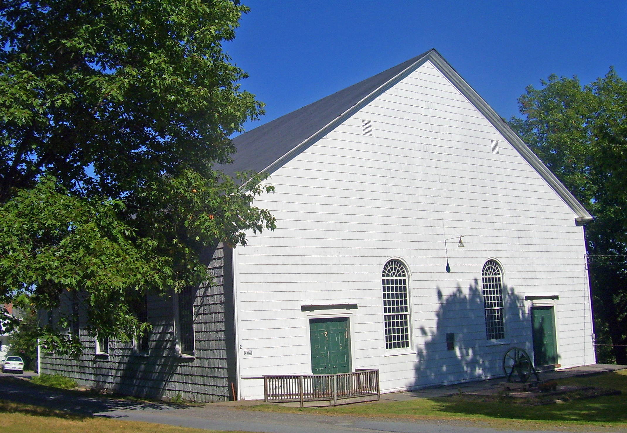 Blooming Grove Church along NY 94 in Blooming Grove, NY, USA